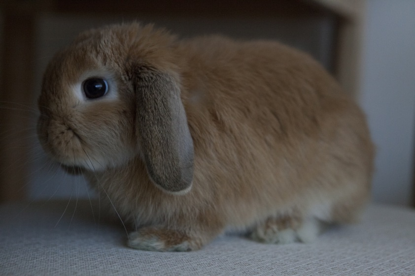 Pet name:QQ Summer, was born on 26 January 2011, England. Breed: miniature lop. The Miniature Lop was recognised by the British Rabbit Council in 1994 (Lop Breed-No.8), with a maximum weight of 1.6kg. It is the smallest of the Lop eared breeds.